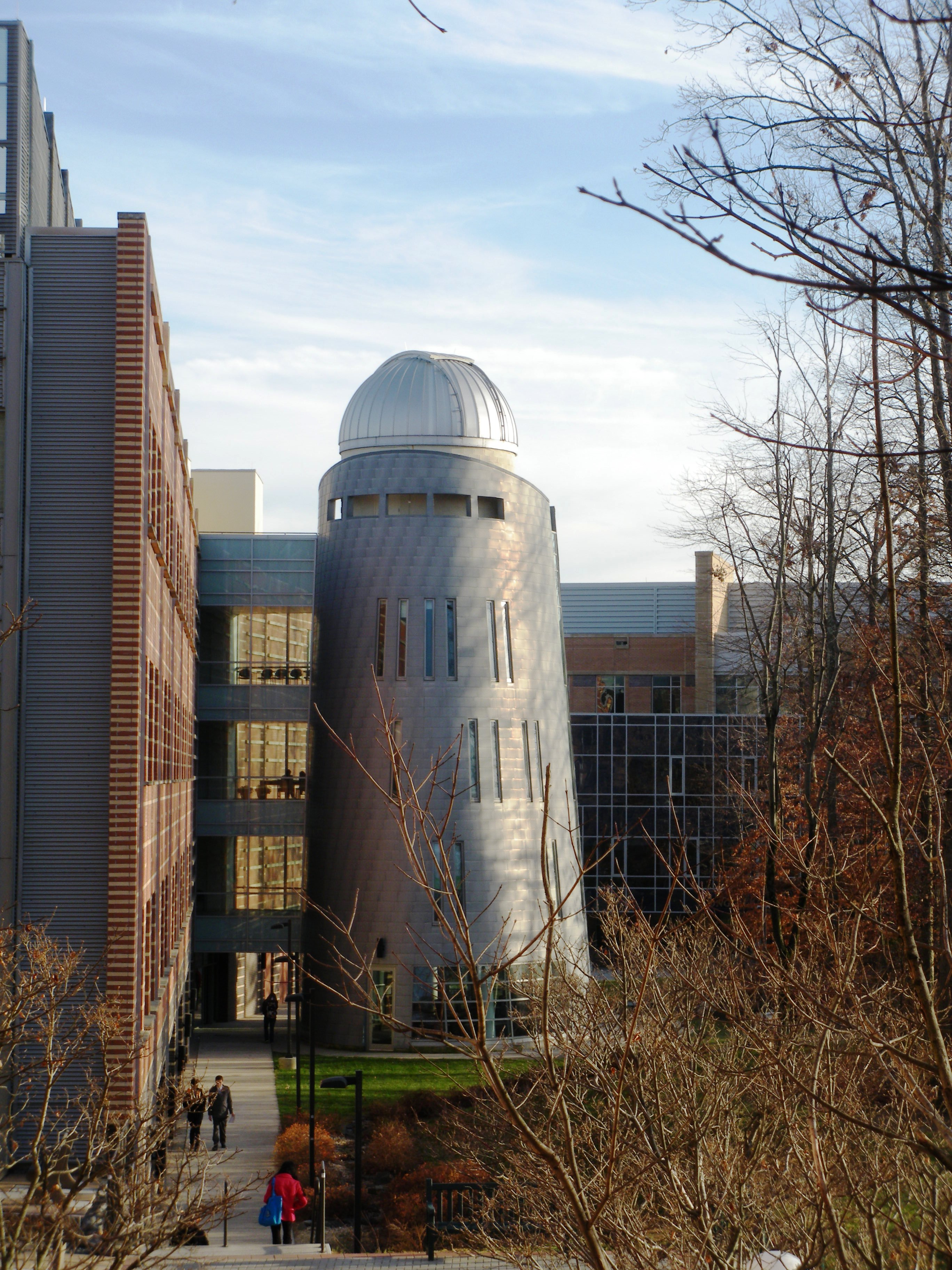 Observatory of George Mason University